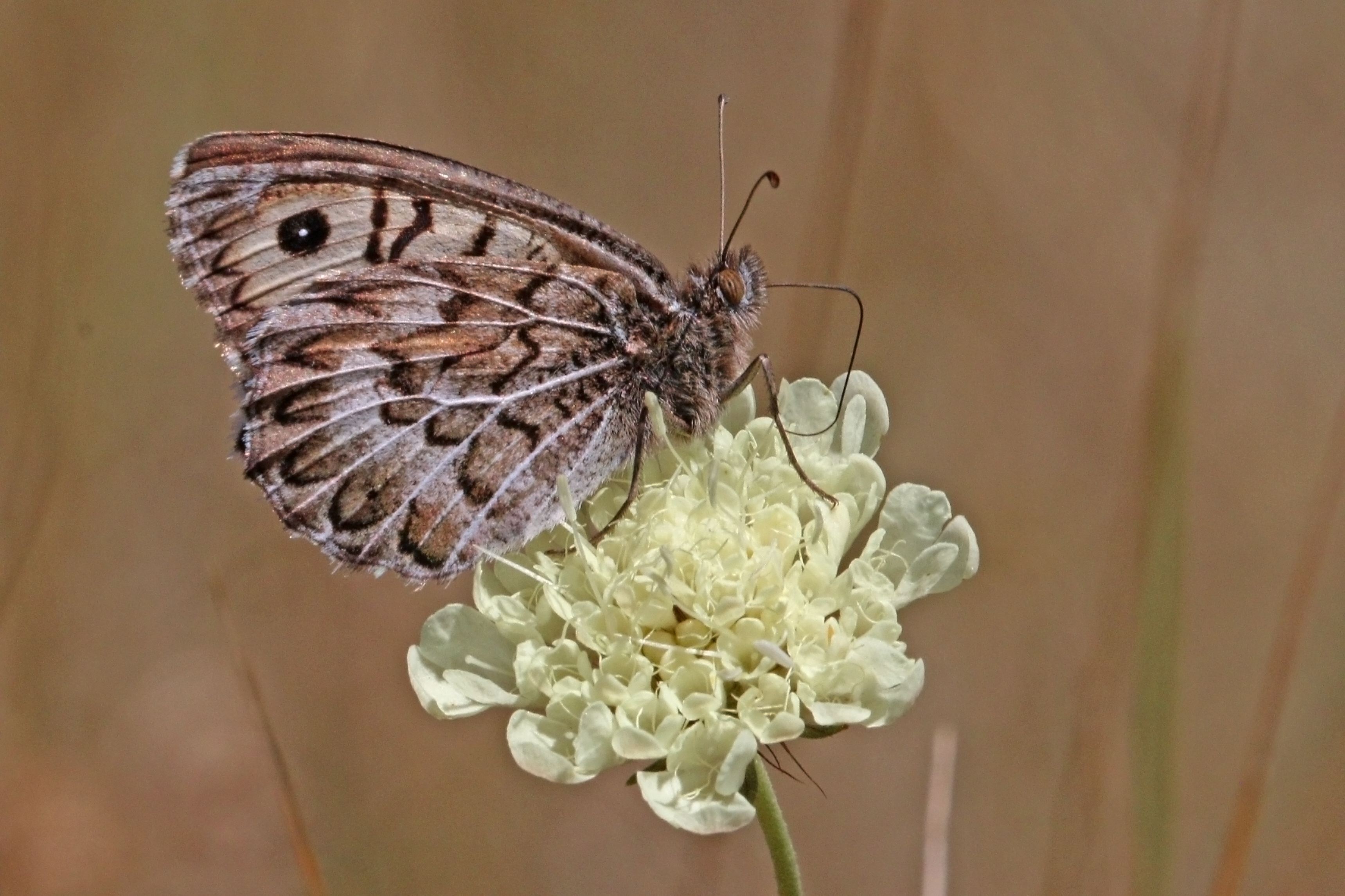 Grey asian grayling (Pseudochazara geyeri), Galichica National Park, Republic of Macedonia